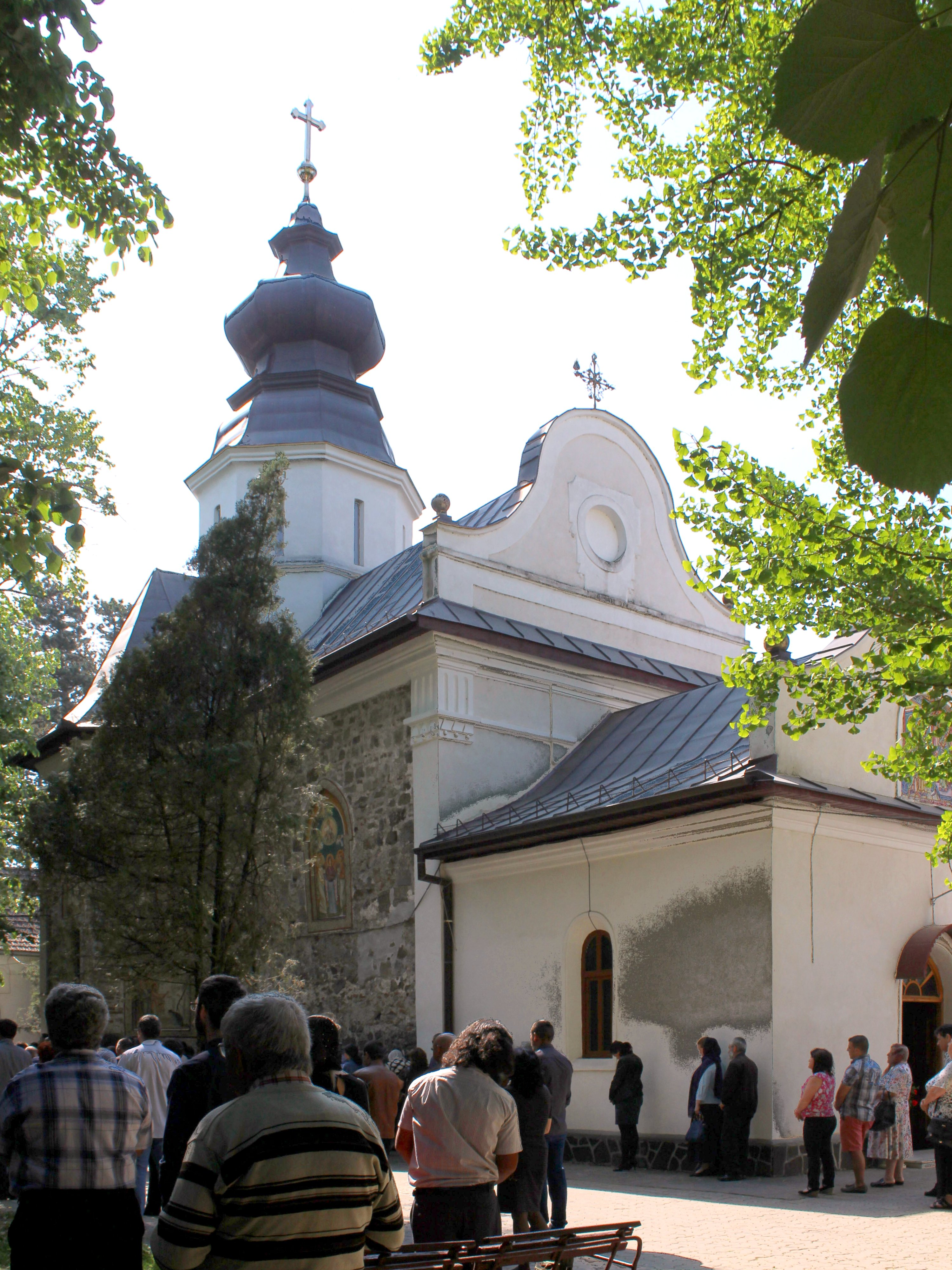 Church "Entrance to the Church of Our Lady" from Hodoș-Bodrog Monastery in 2018. Arad County, Romania.